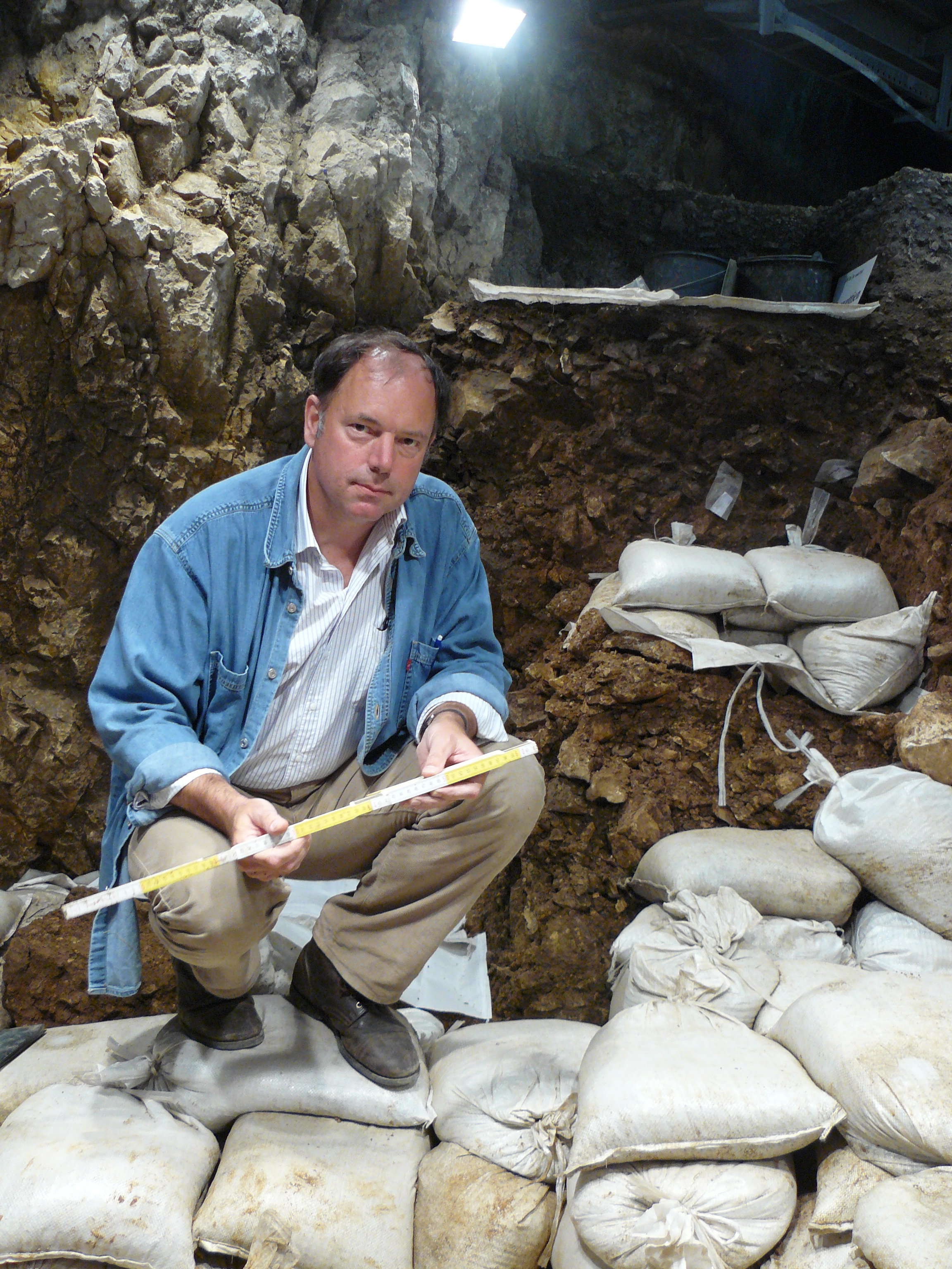 Prof. Nicholas Conard at Hohle Fels Cave, Germany